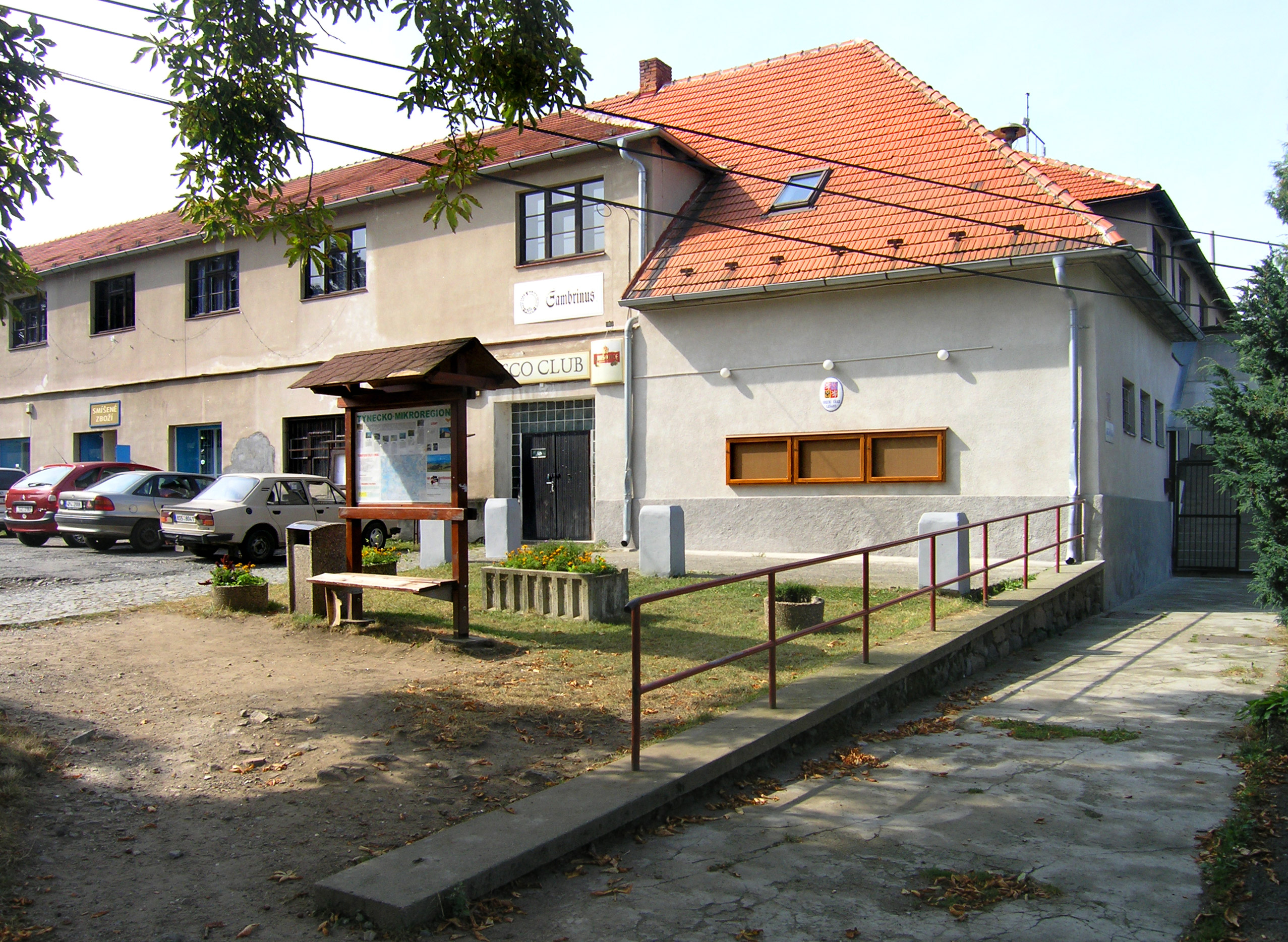 Municipally office in Lešany village, Czech Republic